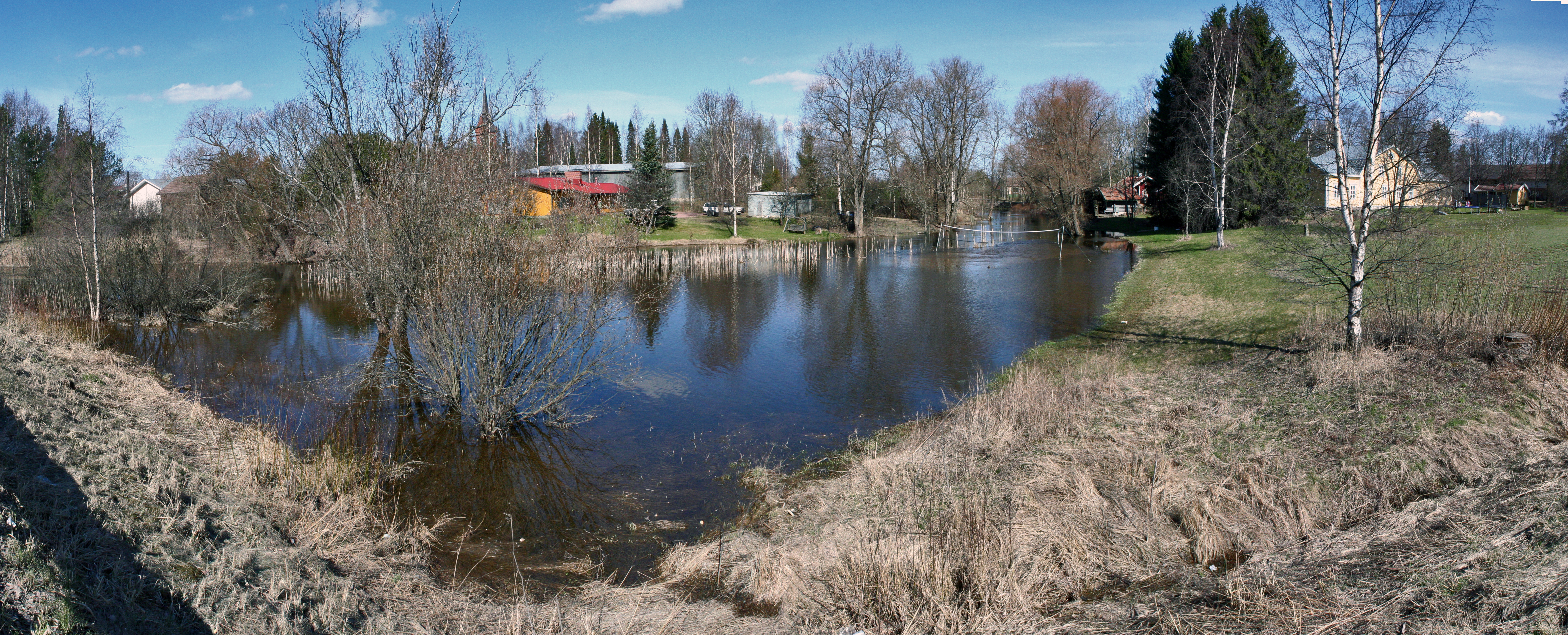 River Eurajoki is flooding at spring 2008